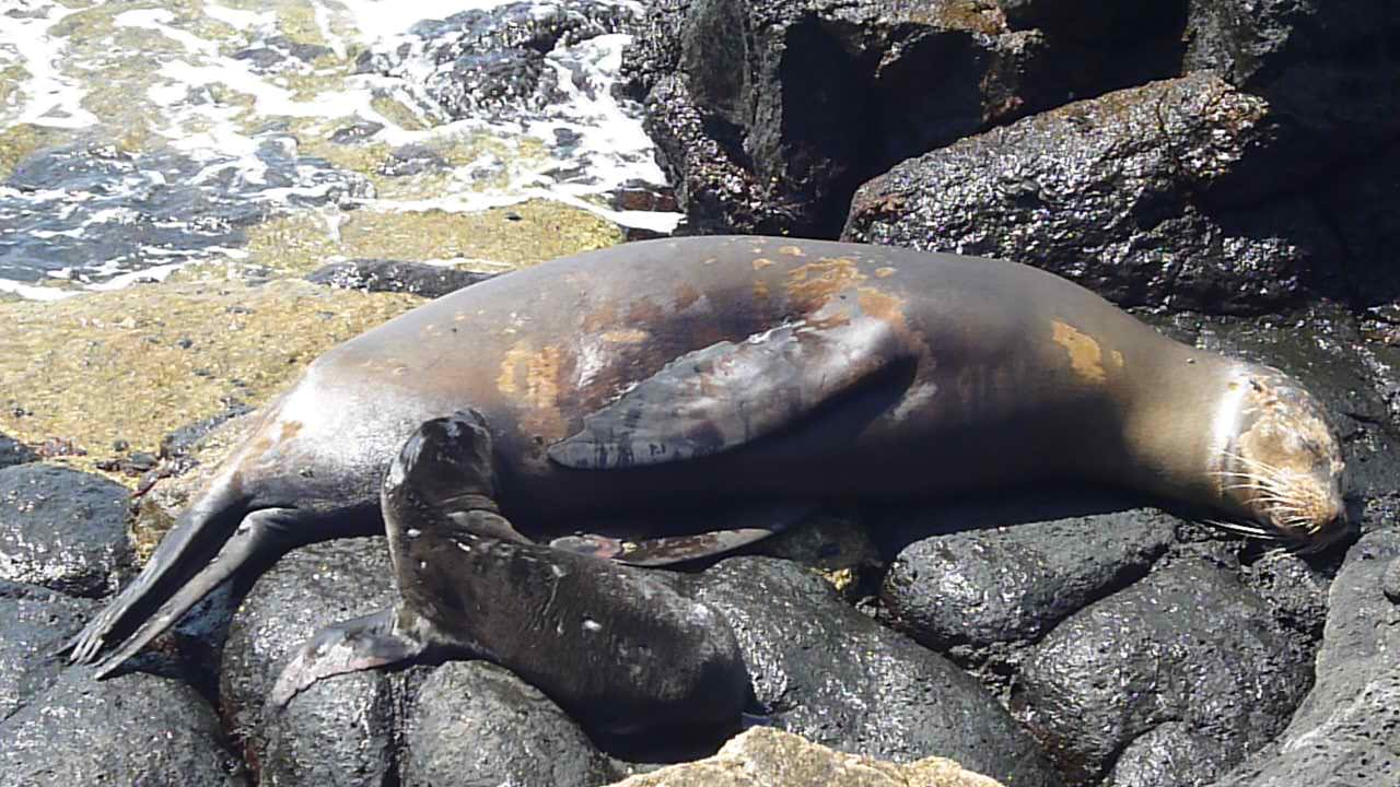 A mother seal with her baby at North Seymour Island, Galapagos - Photograped by Photographer David Adam Kess